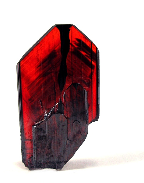 Brookite Locality: Kharan, Balochistan (Baluchistan), Pakistan (Locality at ) Size: thumbnail, 2.3 x 1.3 x 0.1 cm Brookite Xl A stunning, cherry-red brookite crystal from recent finds here! These bright red examples have set a new standard for the species! 2.3 x 1.3 x 0.1 cm